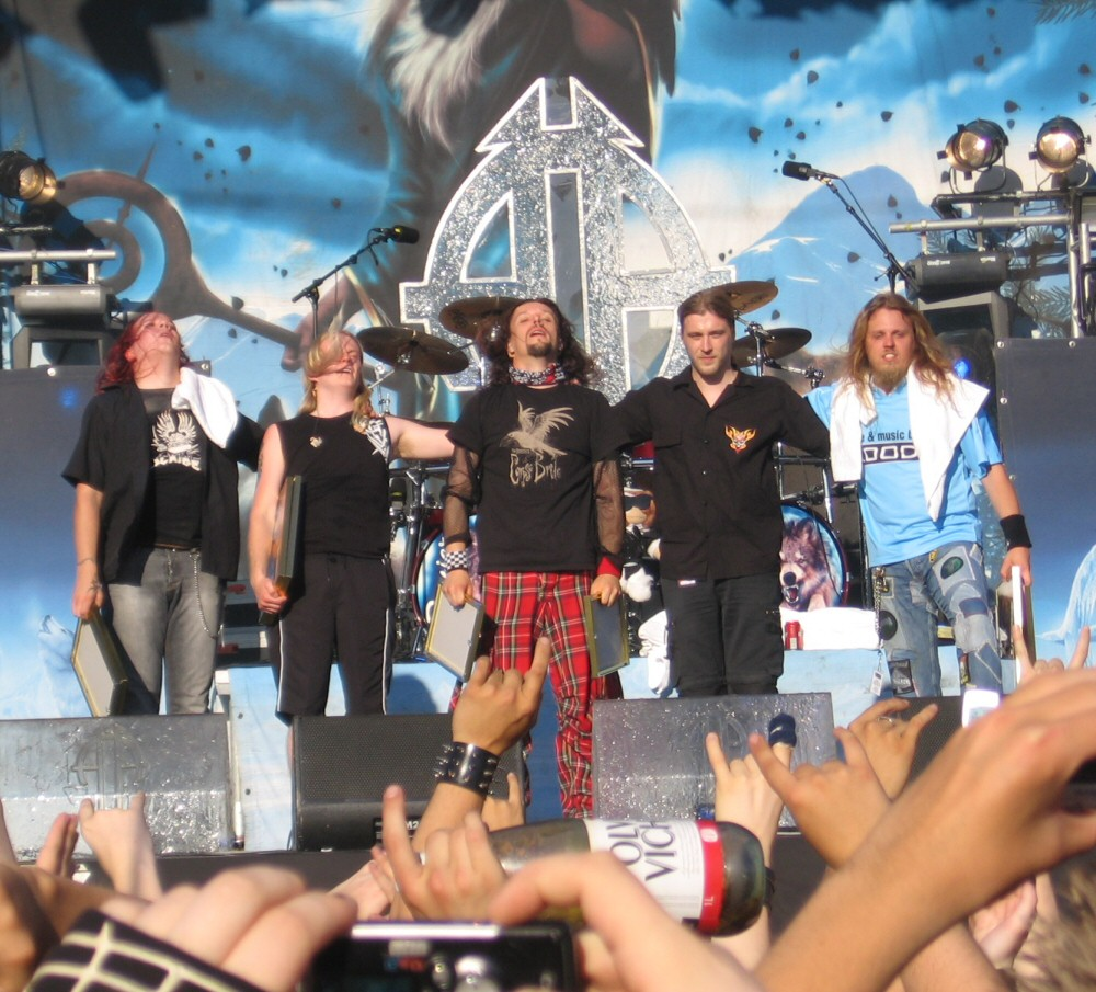 Finnish power metal band Sonata Arctica after having received two gold albums at Tuska Open Air Metal Festival 2006.